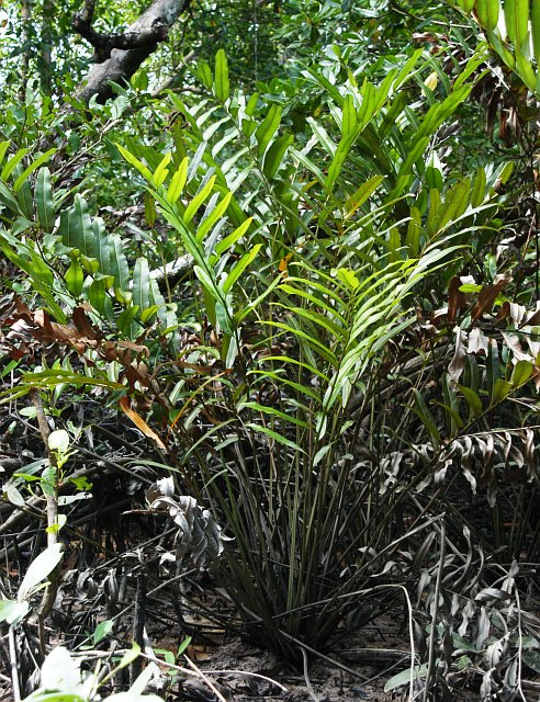 Acrostichum aureum fern (appr. 1.7 m height), mangrove forest near Acarajó, Bragança, Pará, Brazil*